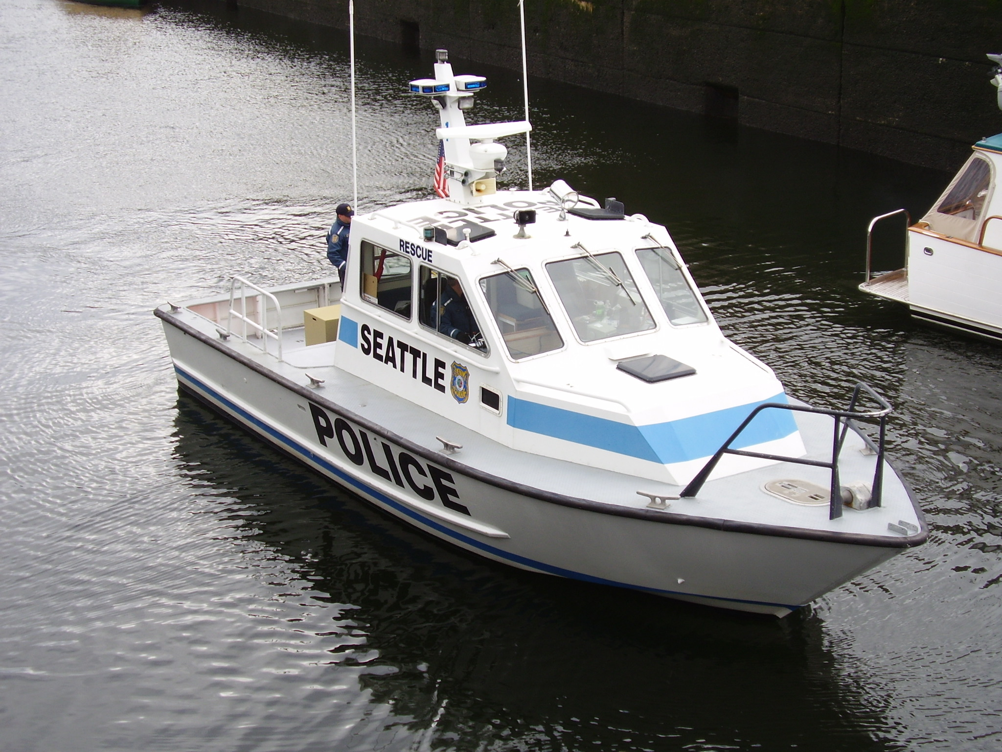 A Seattle, Washington police boat, photographed at the Hiram M. Chittenden Locks, Ballard, Seattle, Washington.